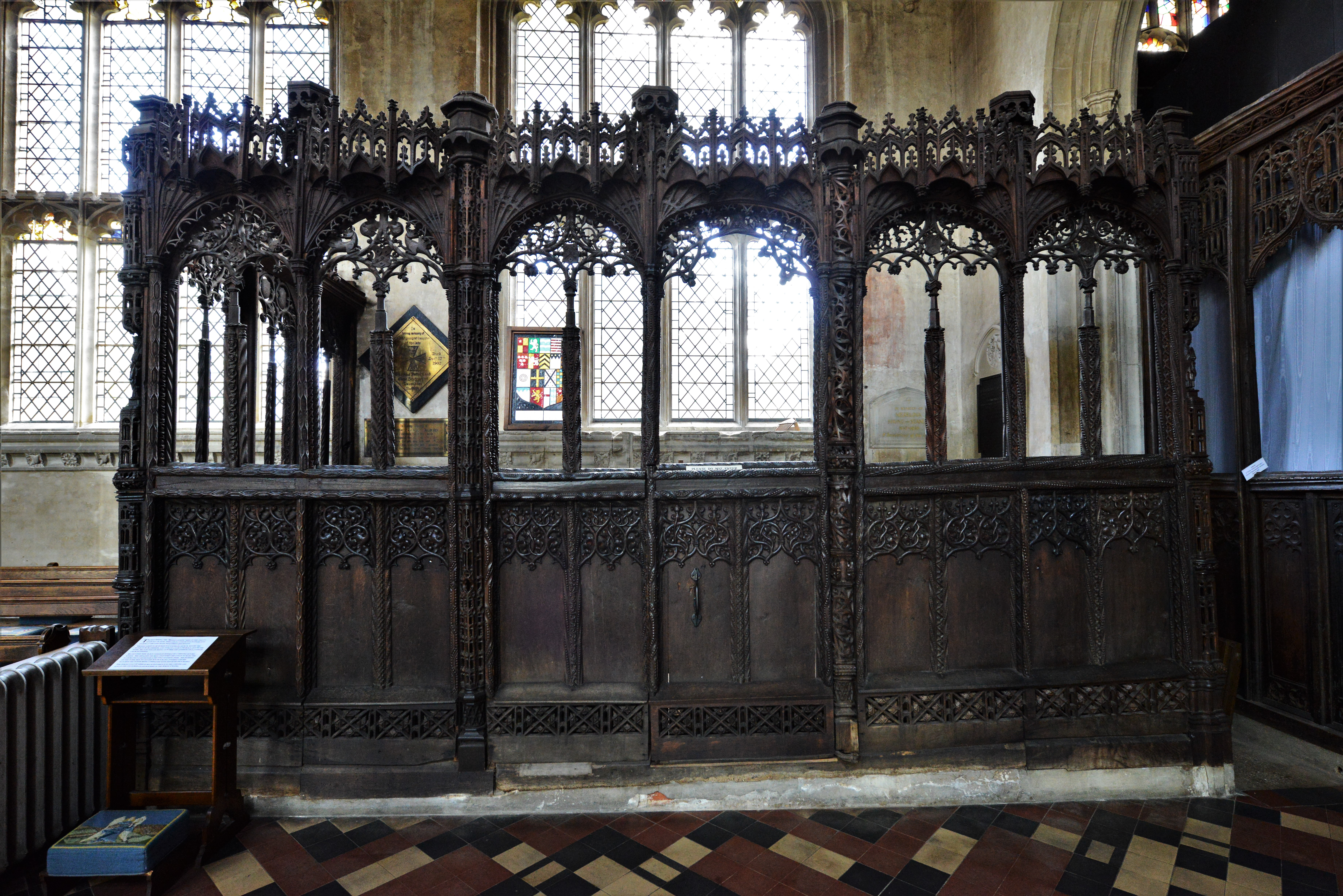 Parclose screen in Church of Saint Peter and Saint Paul, Lavenham, Suffolk, erected as requested in the will of Thomas Spring (c. 1474 – 1523), (alias Thomas Spring III or The Rich Clothier).